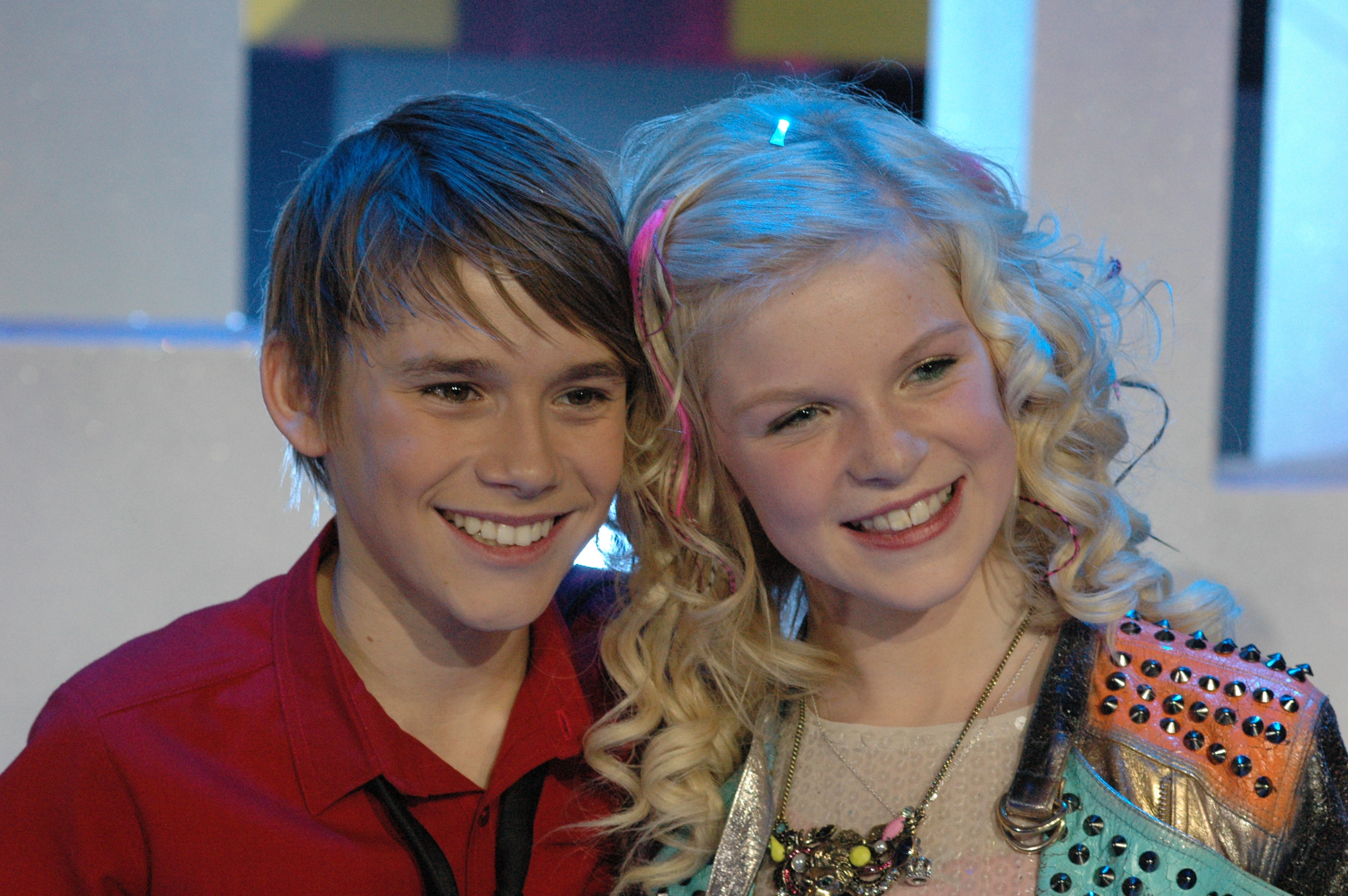 Fabian (Fabian Feyaerts) and Femke (Femke Meines). Junior Eurovision 2012